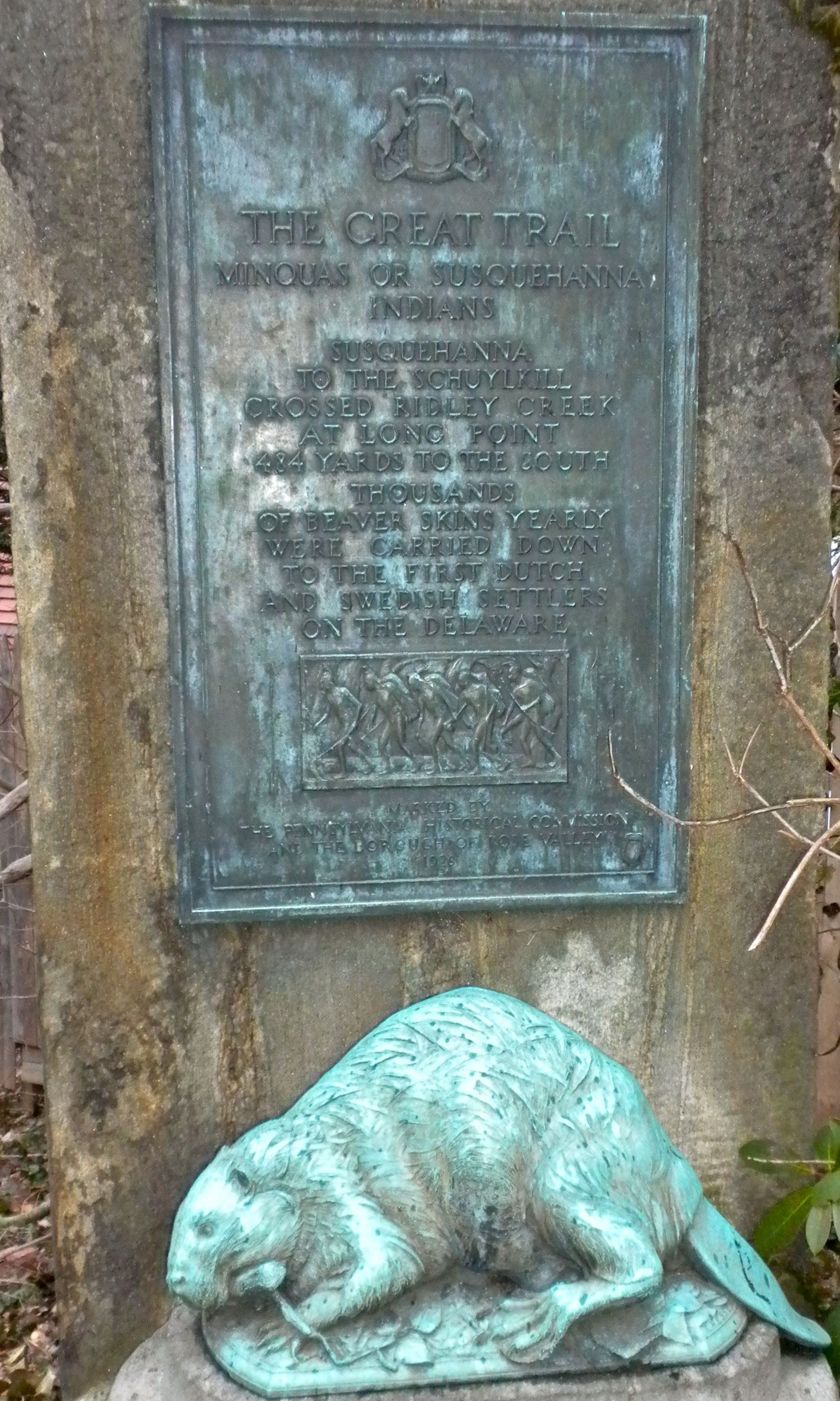 Pennsylvania State Historical marker from 1926, marking the site of (a branch of) the Minquas Path, an Indian Path connecting the Susquehanna River to the Delaware River, used in the 1600s and later to trade beaver pelts. Located just off 45 Rose Valley Road in Rose Valley, Pennsylvania, right next to the NRHP Thunderbird Lodge. Rose Valley is also on the NRHP as a Historic District. (The marker is specifically mentioned in the both the Rose Valley HD and Thunderbird Lodge NRHP nominations). A regular new style PHMC marker is placed right next to it, about 3 feet to the left, but out of this photo. The new marker repeats similar text as the old marker. Marker is in total about 4 feet high and easy to miss at a turn of Rose Valley Road. If you want to see it park at the Hedge Row Theater and walk about 30 yards north. Spots on the beaver are raindrops. Beaver sculpture by Albert Laessle, 1926, see SIRIS, no visible copyright notice so public domain.